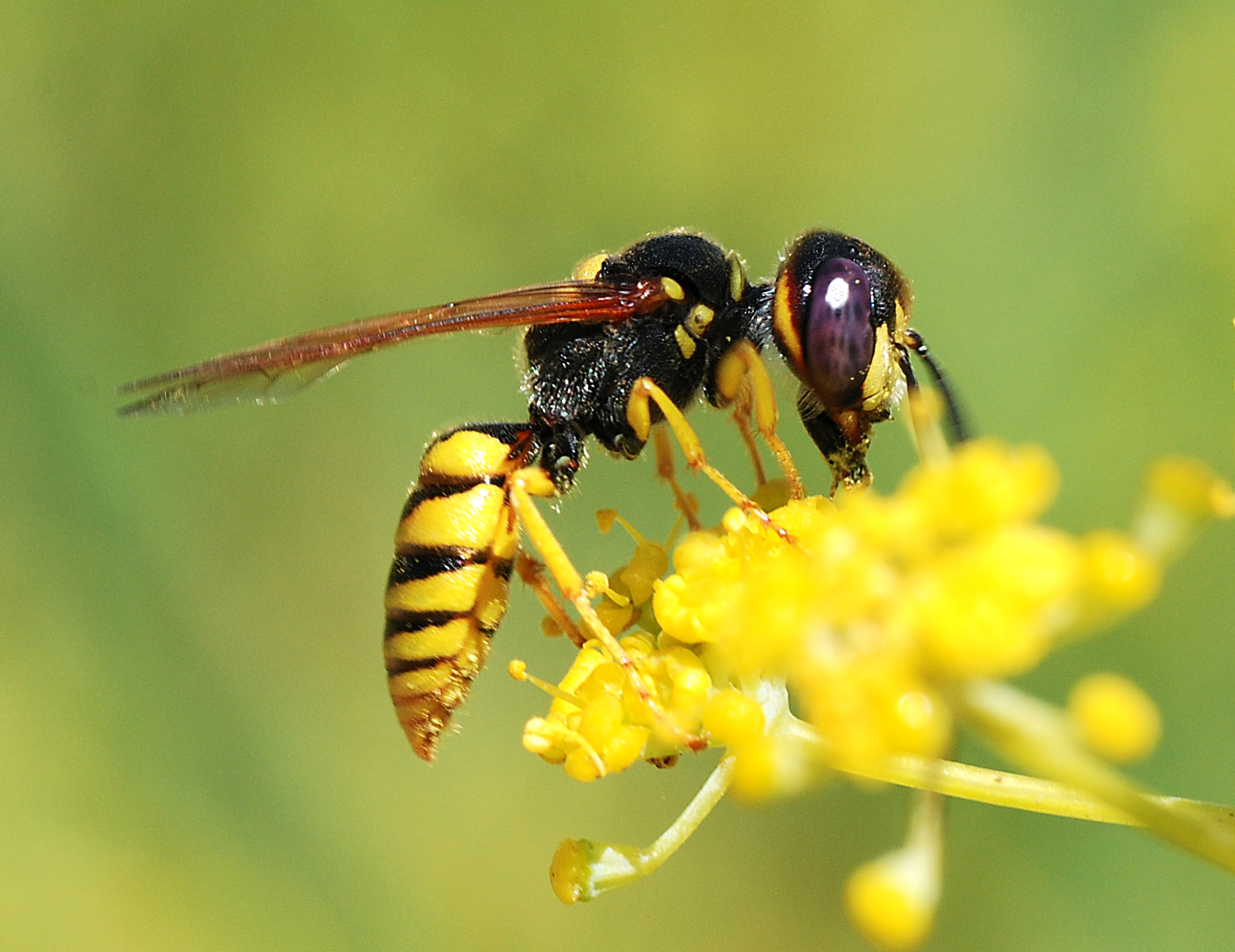 European Bee-wolf (Philanthus triangulum)